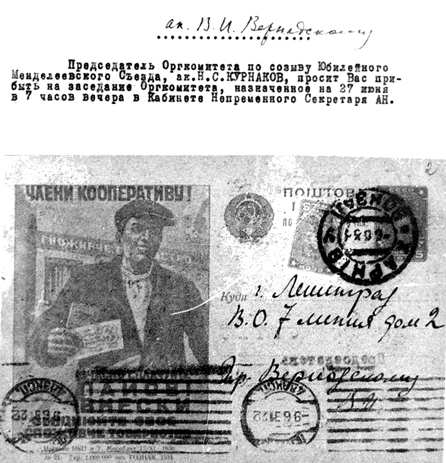 Letter of academician N. Kurnakov for academician V. Vernadsky. 1931